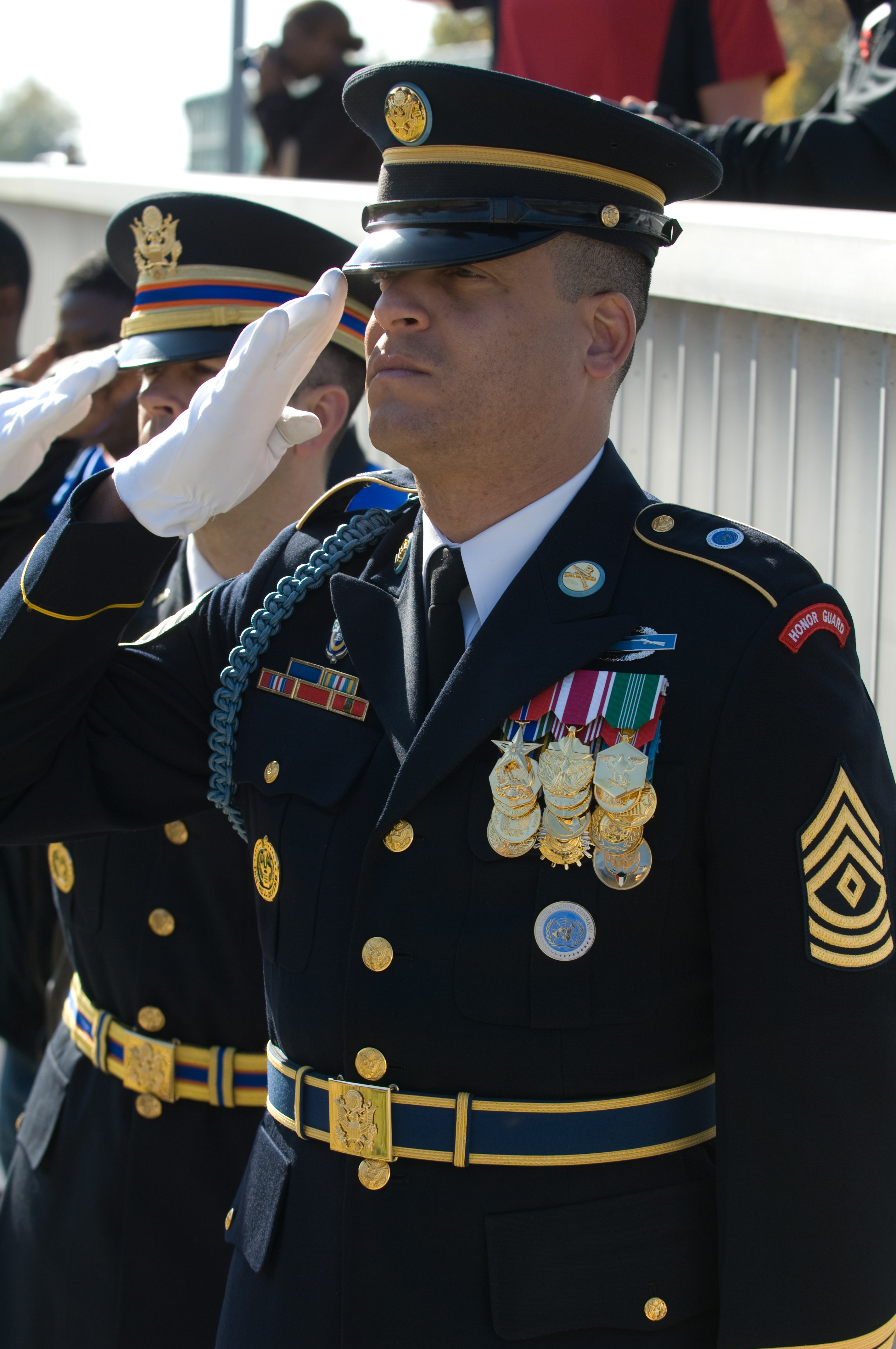 A U.S. Army first sergeant wearing the infantry blue cord at a memorial event at Yongsan Garrison, Seoul, Korea.U.S. Forces Korea honors veteran's